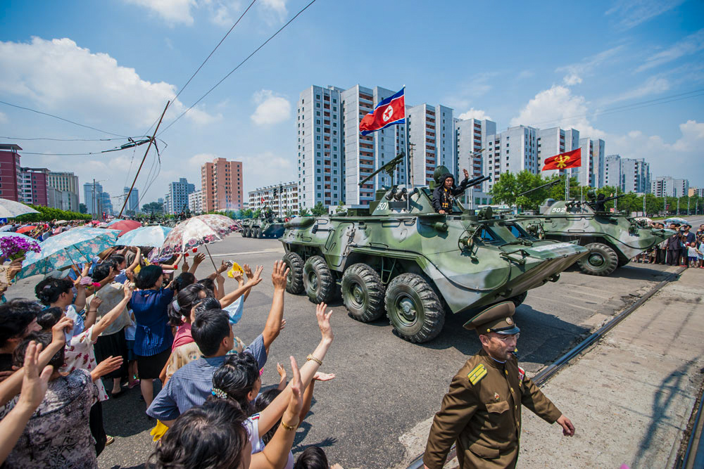 Tank in the DPRK Victory Day Parade